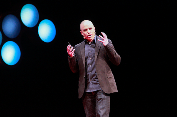 Photo of Dr. Zubin Damania speaking at TEDMED 2013.